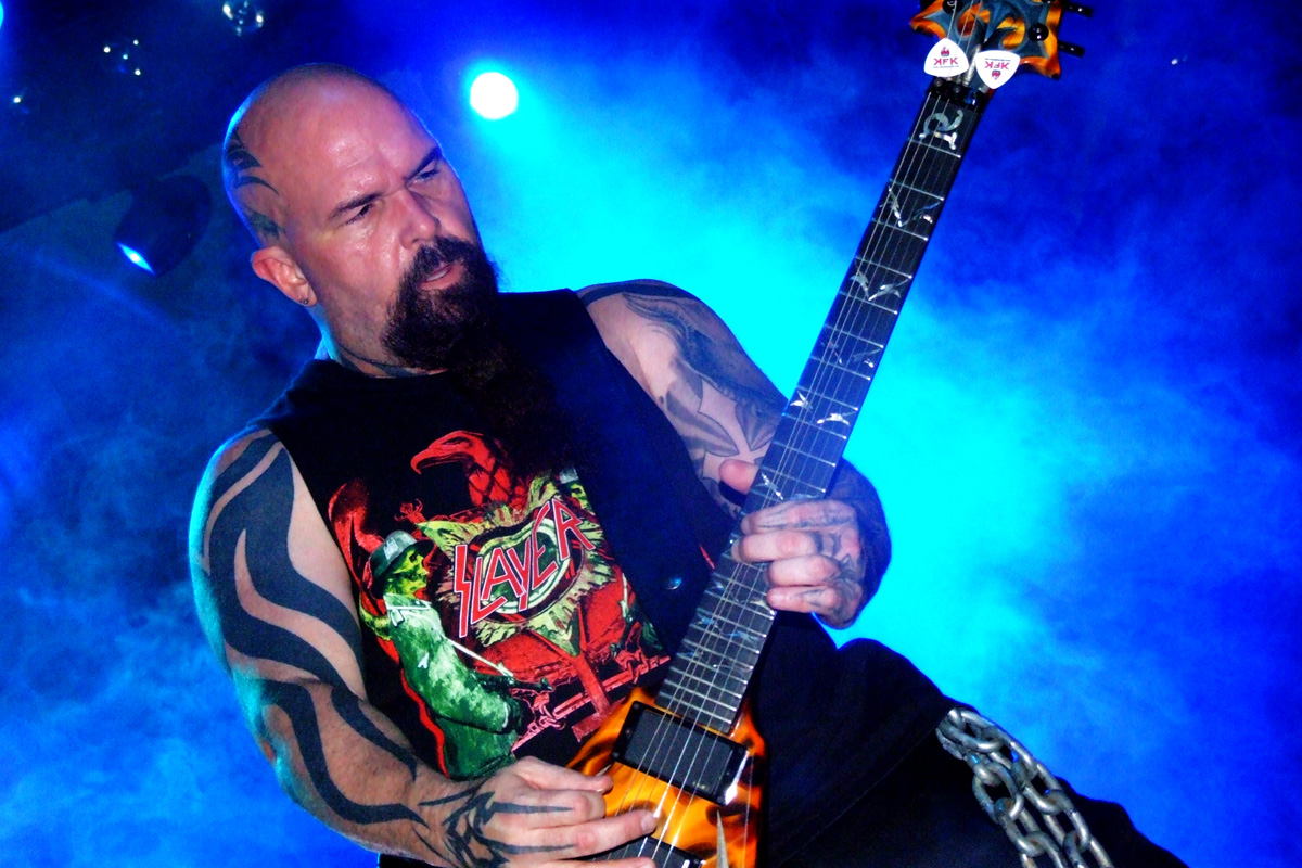 Show do Slayer em BH / 2006. Foto por Suelen Pessoa.